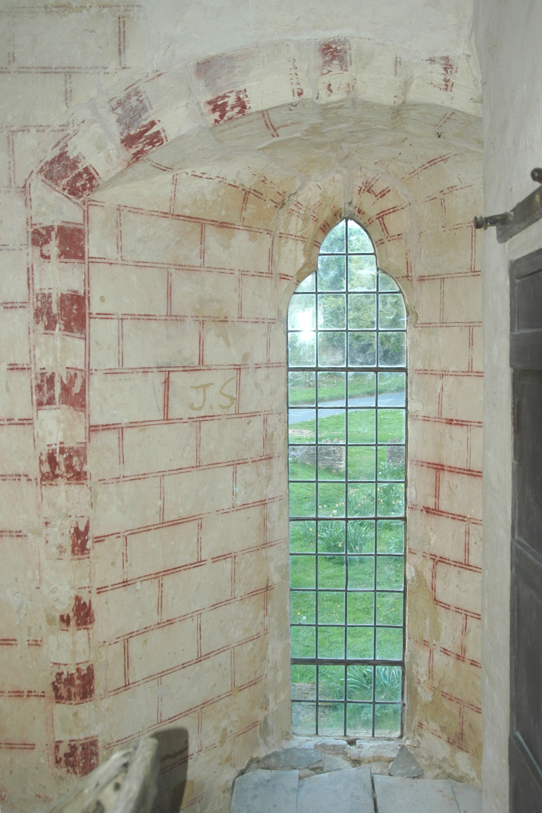 Holy Rood parish church, Woodeaton, Oxfordshire: cusped window on north side of tower with medieval wall painting simulating regular stone blocks